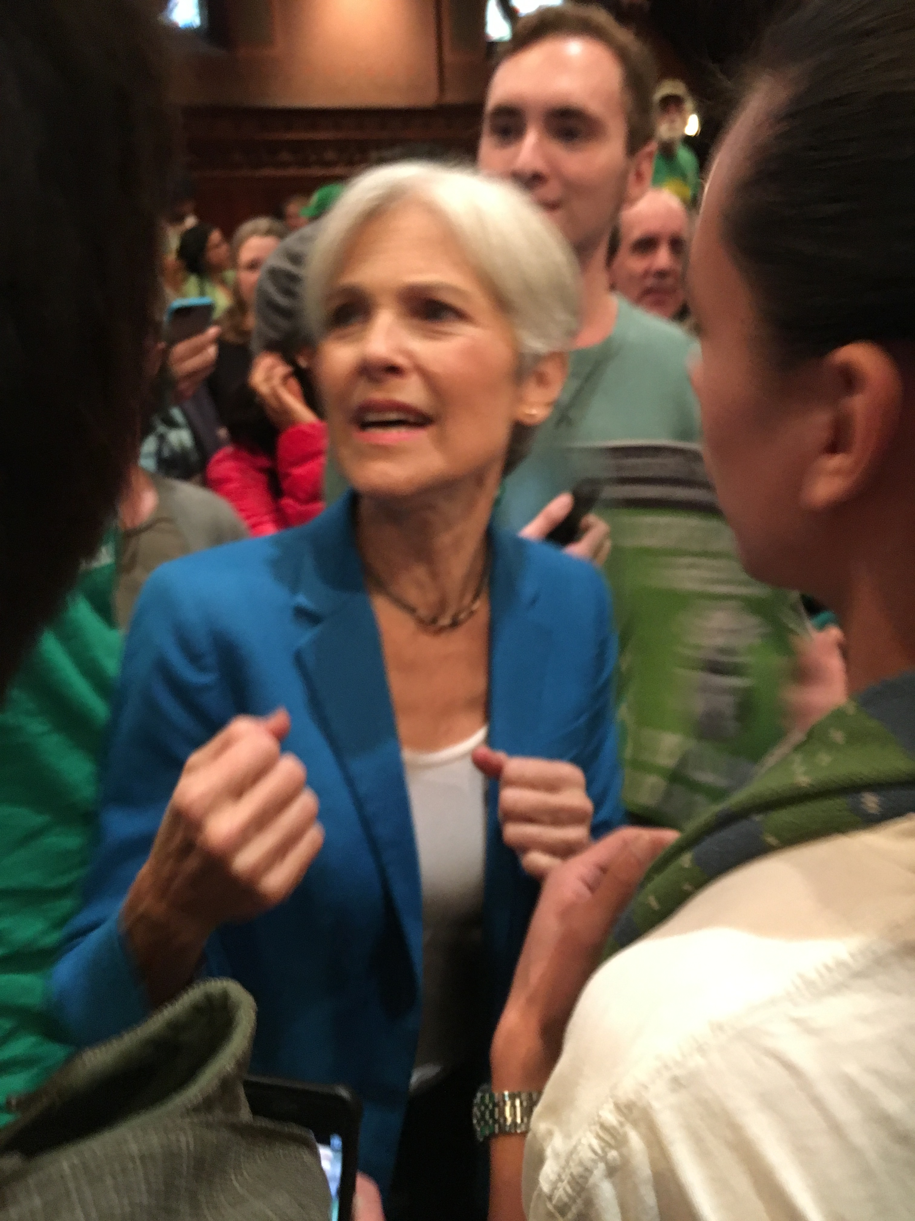 Boston, Massachusetts. Old South Church. 2016